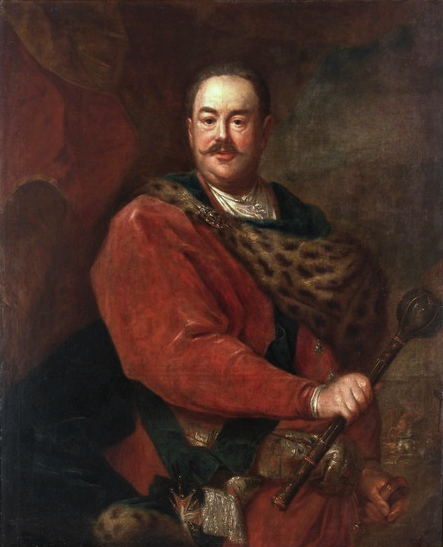 Jan Klemens Branicki